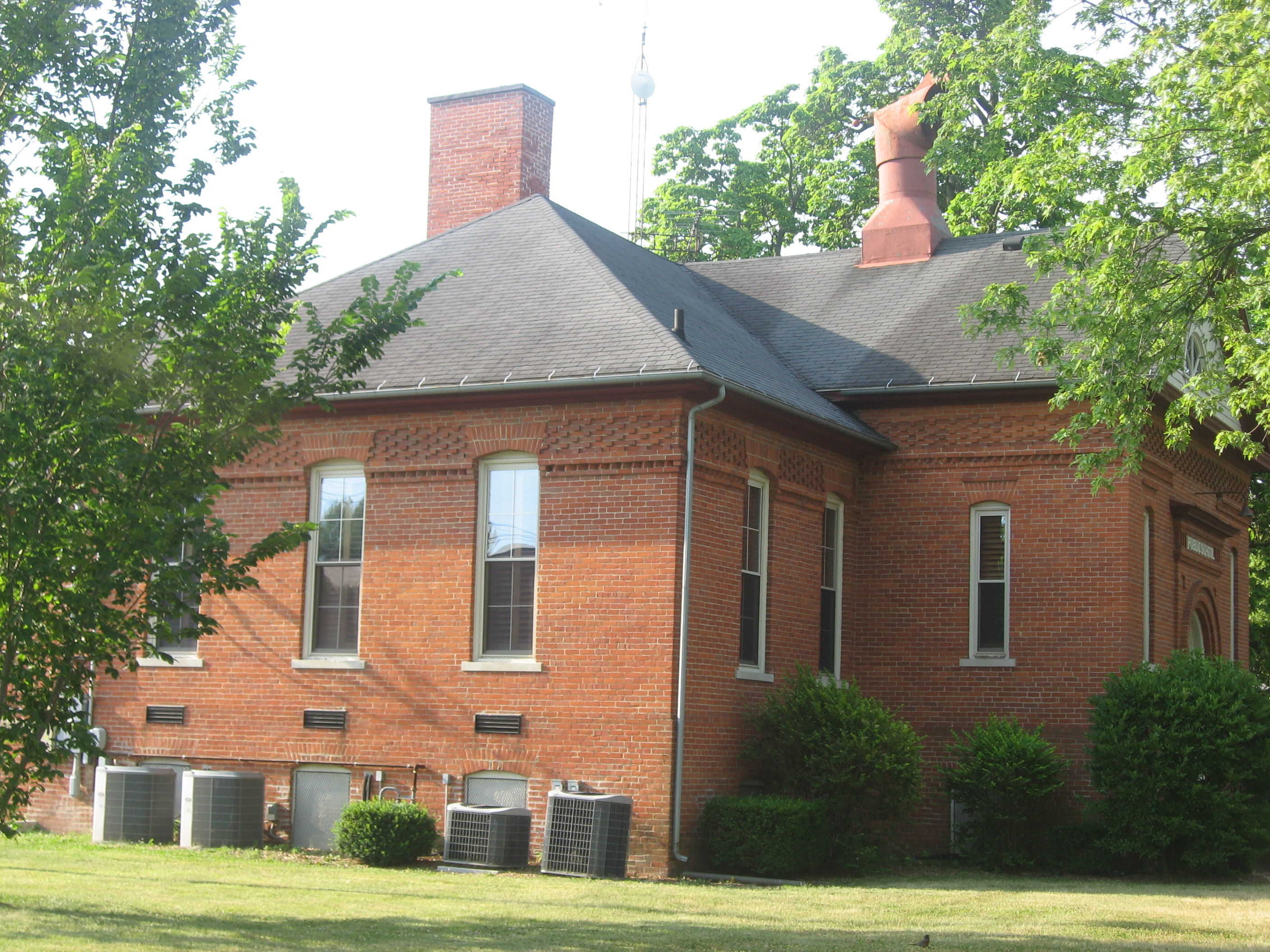 Northern side and front of the South Grade School Building, located at 565 S. Main Street (U.S. Route 421/State Road 39) in Monticello, Indiana, United States. Built in 1892, it is listed on the National Register of Historic Places.